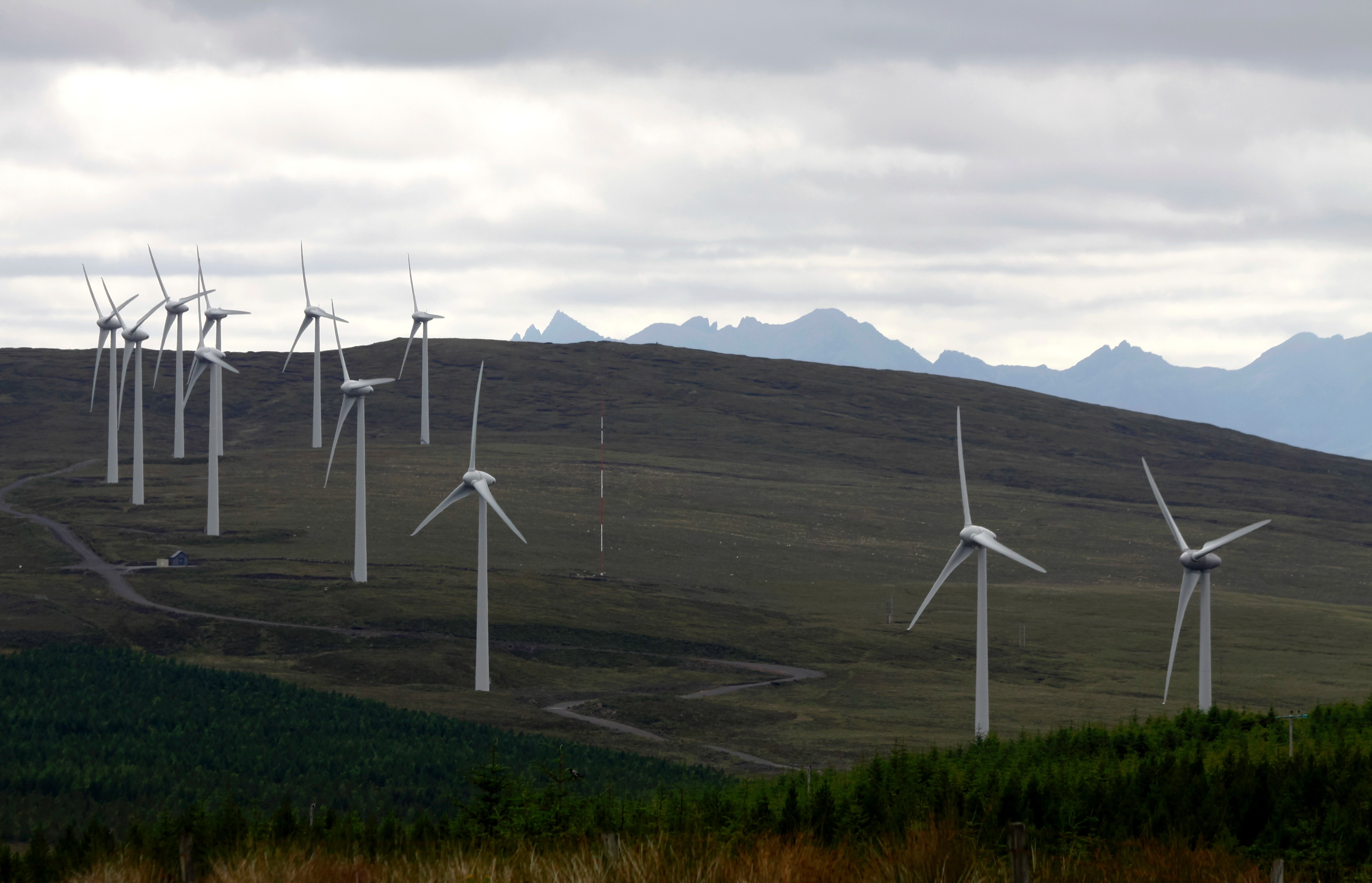 Windfarm Bernisdale, Isle of Skye, Scottland